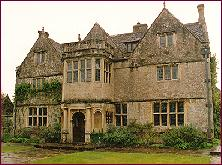 Photograph of St Catherine's Court, near Bath, England, by Jean Manco.